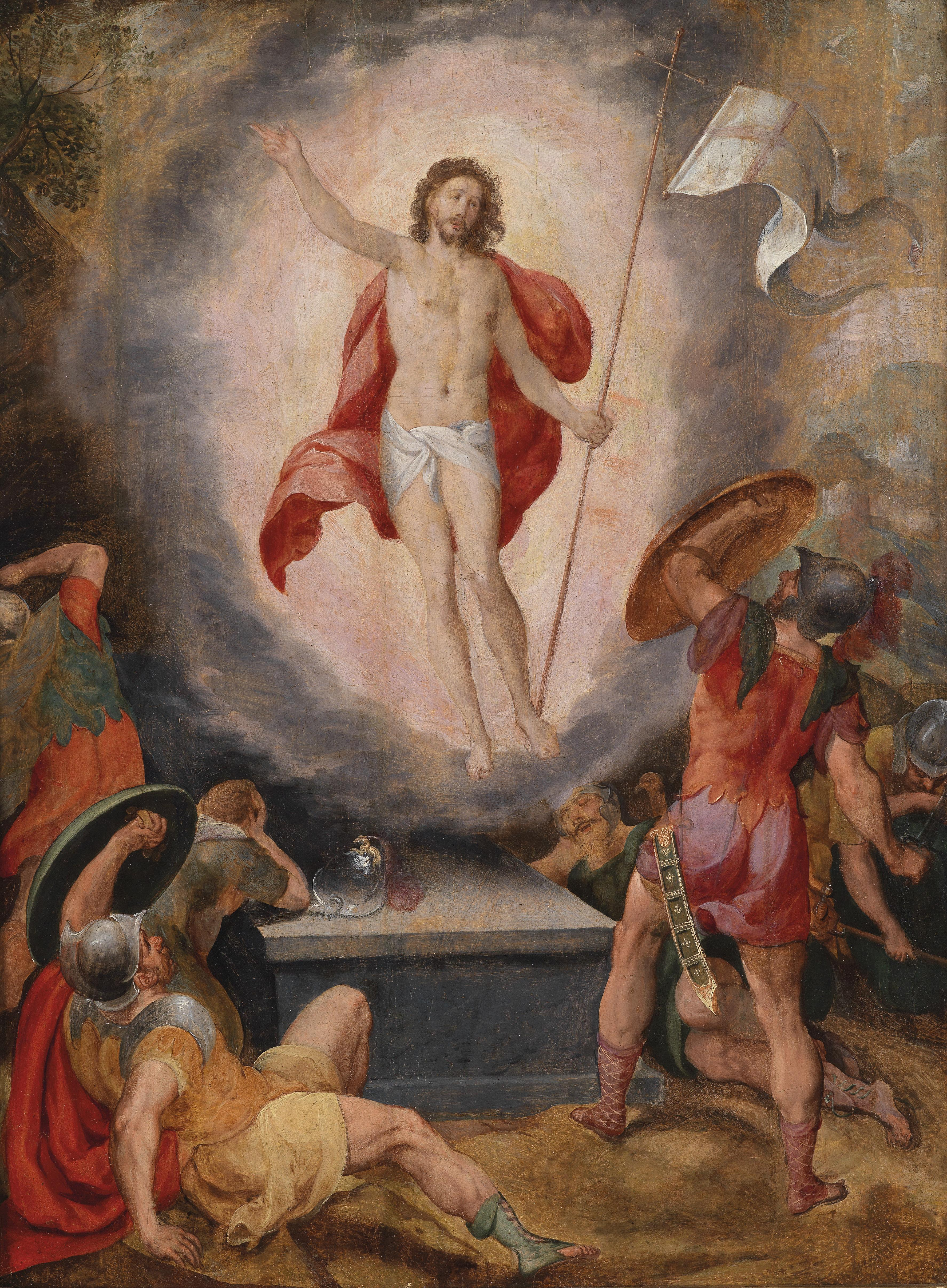 Resurrection of Christ. Oil on panel, 60 x 48 cm